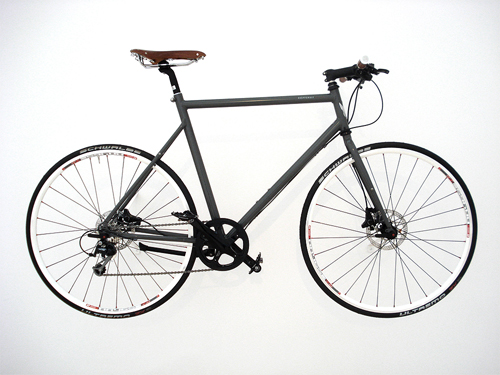 Skeppshult STC Steel 100 from Skeppshultcykeln, photo from the exhibition Cyklar! at Vandalorum art centre, Värnamo, Sweden, 23rd July 2011